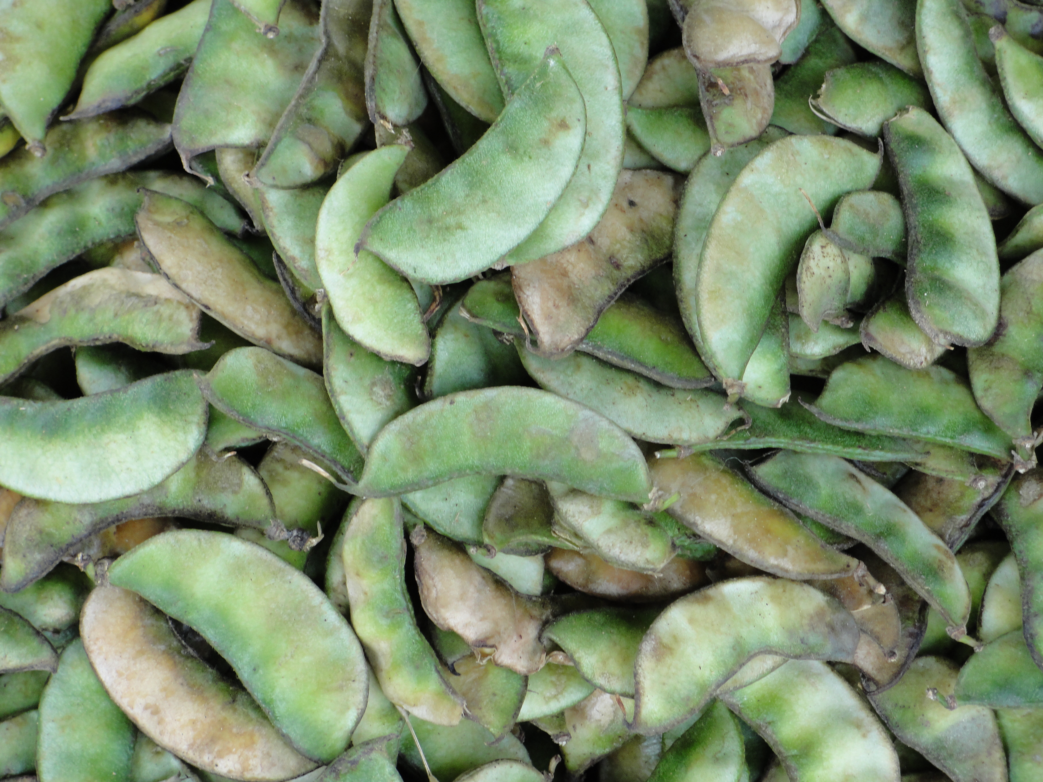 A country bean1